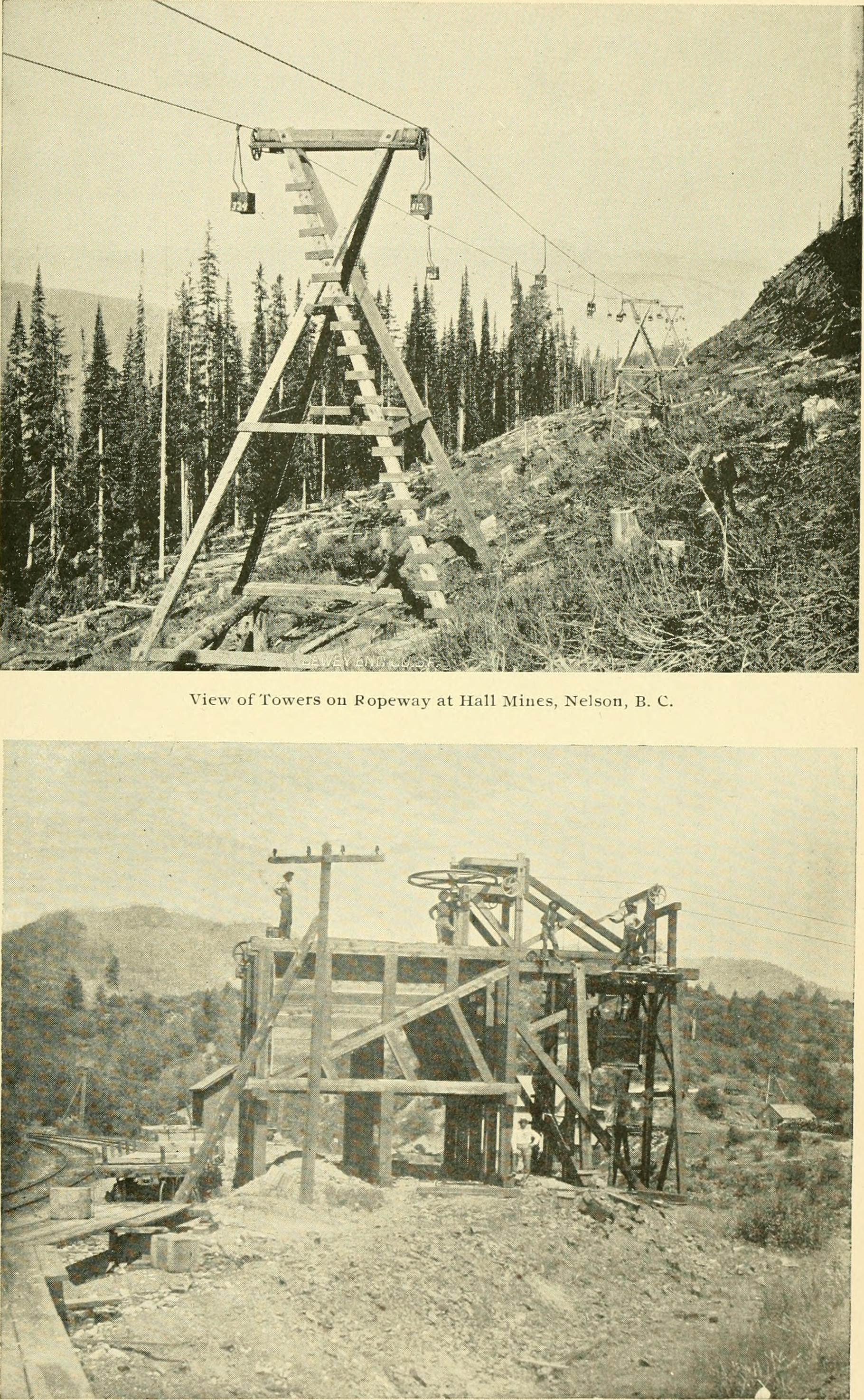 Upper: Towers on Ropeway at Hall Mines, Nelson, B. C.; Lower: Lower terminal of ropeway at Mammouth Mine, Redding, Cal. Title: California mines and minerals Year: 1899 (1890s) Authors: California Mining Association Benjamin, Edward H Subjects: Mines and mineral resources -- California Publisher: San Francisco : (Press of Louis Roesch Co.) Text Appearing Before Image: Hallidie Ropeway This is a general view of a Hallidie Rope- _.^ J, . . , -■** . ,,. -.,. Single Rope system WAY. It IS Simple, „ .^ t. 1 J Loads mechanically Dumps automati-cally.Send for catalogue HOISTING PLANTS POWER TRANSMISSION EXCAVATING AND CONVEYING SYSTEMS CALIFORNIA WIRE WORKS 9 FREMONT STREET SAN FRANCISCO, CAL. The Judson Dynamite and Powder Co. Manufacturers of Dynamite and Blasting Powder JUDSON LOW POWDER^ CAPS AND FUSENo. 200 Market Street San Francisco, Cal. Directors : Alvinza Hayward, Bartlett Doe, Jos. Knowland, C. S. Benedict,Ed. G. Lukens, President. Text Appearing After Image: Lower Terminal utRopcway at Maminuuth .Mine, near Redding, Cal. DOWS IMPROVED Steam^ Air and Electrical Pumping Machinery For.... Mining Purposes ,W^±^l